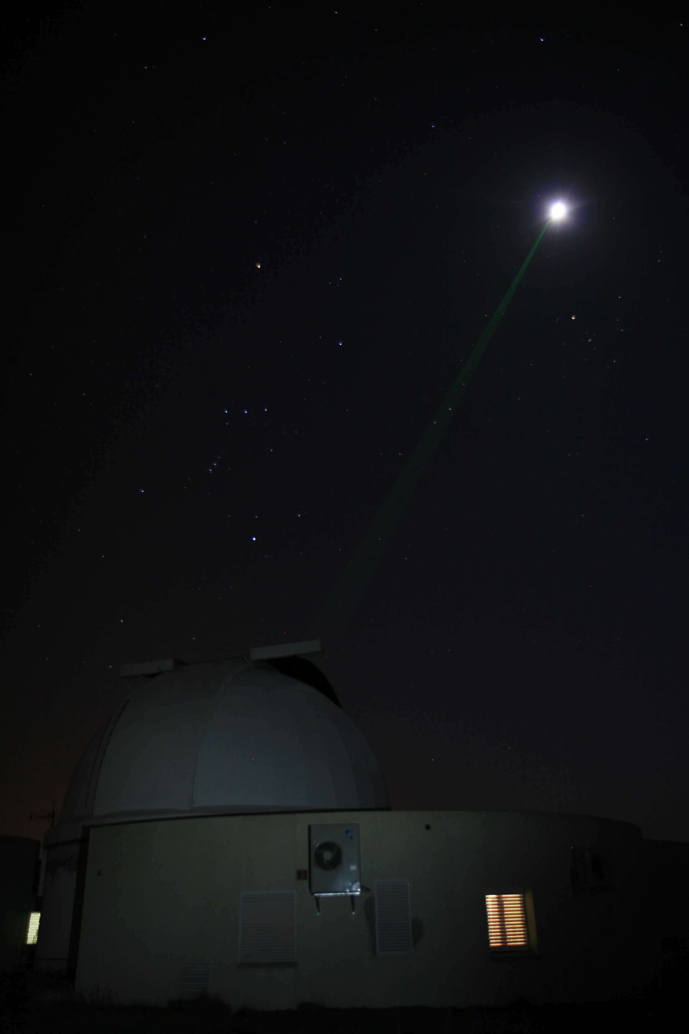 Lunar Laser Ranging at the Observatoire de la Côte d'Azur (Calern, France)